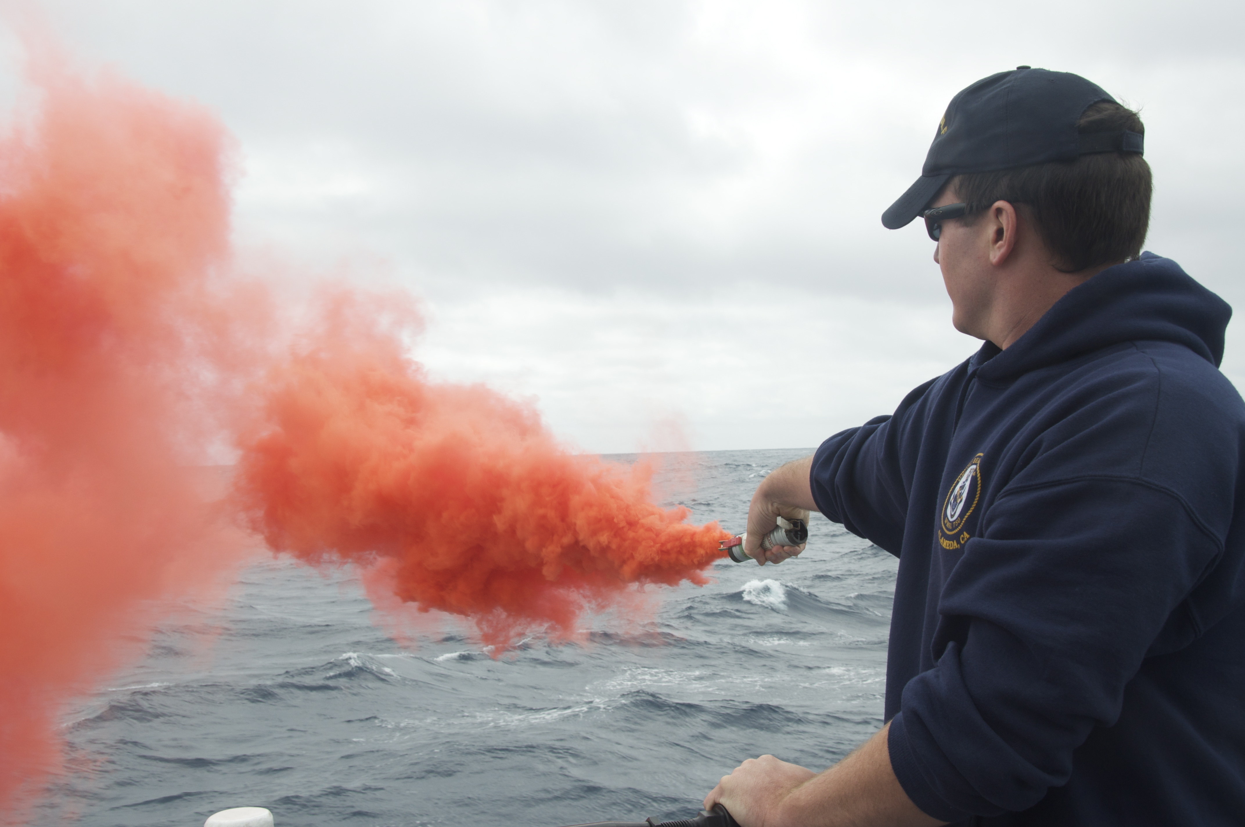 NORTHERN PACIFIC OCEAN - Seaman Timothy Derkatch watches as orange smoke pours out from a day/night flare during pyrotechnics training held aboard the U.S. Coast Guard Cutter Bertholf, Friday, Aug. 7, 2009. Prior to firing the pyrotechnics, the crew learned misfire procedures and precautions before firing. The crew trained with smoke flares, day/night flares and other signaling devices used aboard the Bertholf. (Coast Guard photo/Petty Officer 2nd Class Jetta H. Disco)